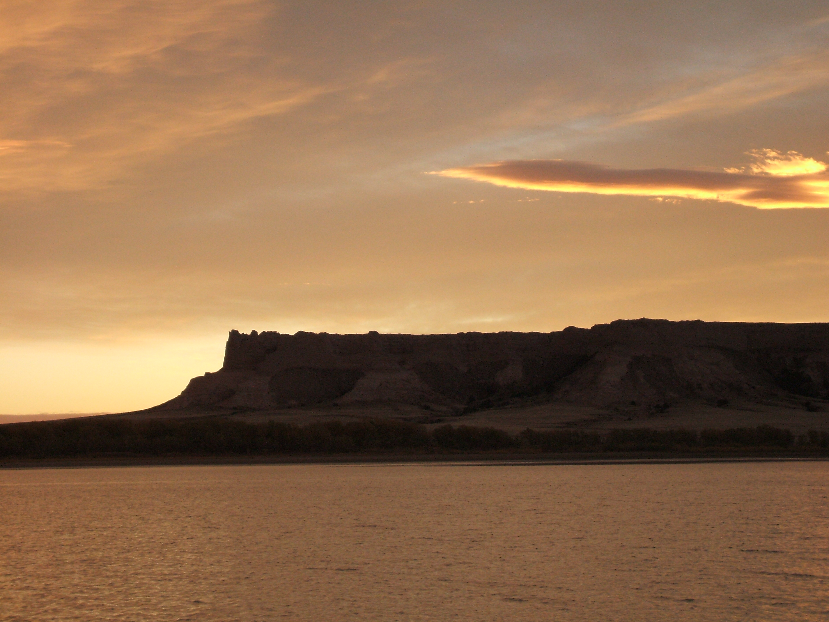 Looking east at morning twilight beyond Hawk Springs Reservoir, in Goshen County, Wyoming.